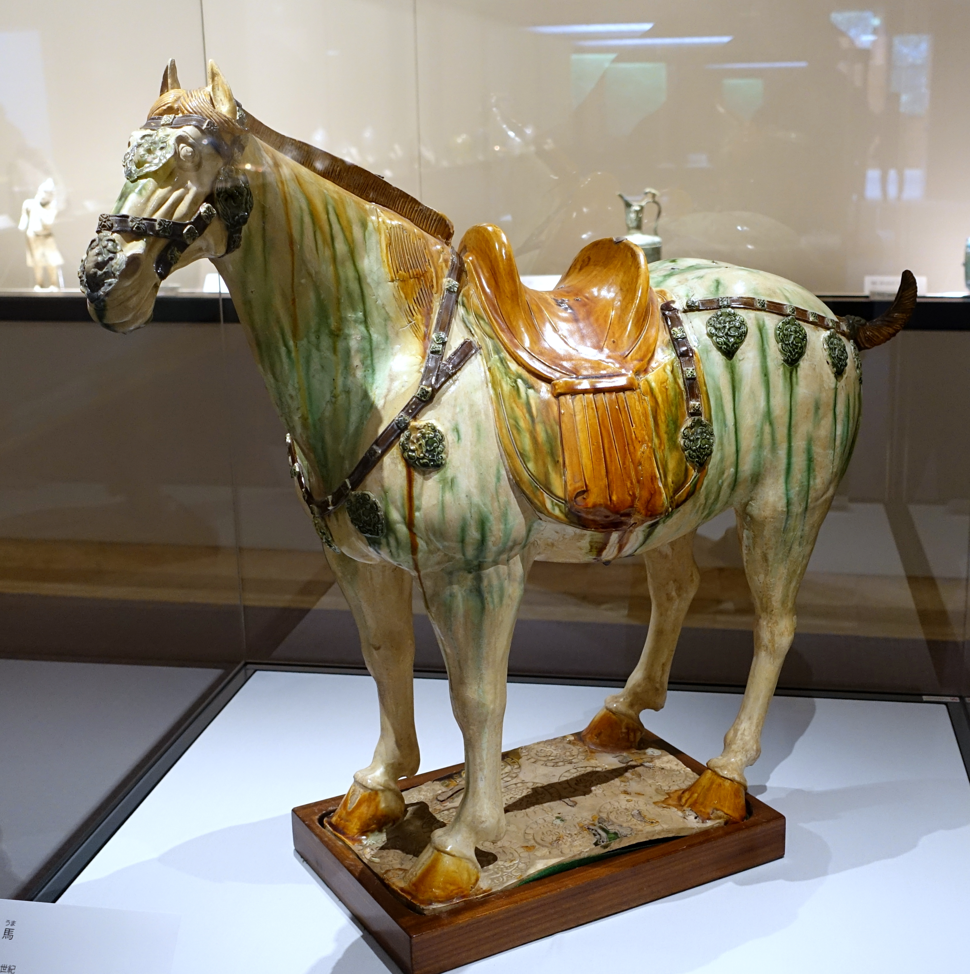 Exhibit in the Matsuoka Museum of Art - 5 Chome-12-6 Shirokanedai, Minato, Tokyo 108-0071, Japan.